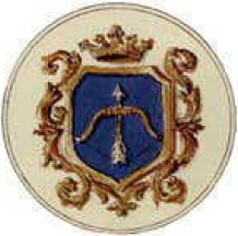 Coat of Arms of Bieraście (1792)